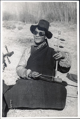 A Chinese Blind musician dressed in Tibetan clothing, part of the Lhasa Band, entertaining Tibetan and British officials of the British Mission at the Dekyi Lingka, the residence of the British Mission in Lhasa